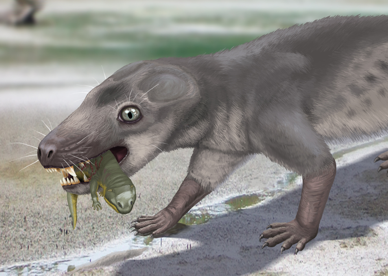 Life restoration of Chthonosaurus velocidens eating Karpinskiosaurus ultimus. Chthonosaurus based on figures 19-20 of "Permian and Triassic therocephals (Eutherapsida) of Eastern Europe" by M. F. Ivakhnenko (Paleontological Journal 45 (9): 981-1144). Karpinskiosaurus based on figure 3 of "The cranial anatomy, ontogeny, and relationships of Karpinskiosaurus secundus (Amalitzky) (Seymouriamorpha, Karpinskiosauridae) from the Upper Permian of European Russia" by Jozef Klembara (Zoological Journal of the Linnean Society 161 (1): 184–212).